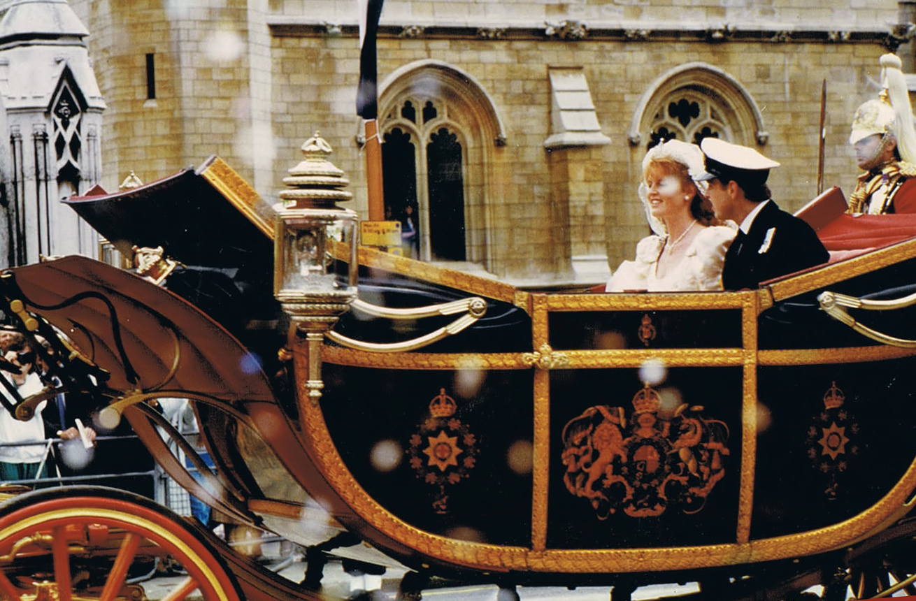 Parade following the marriage of Prince Andrew to Sarah Ferguson in London, Westminster